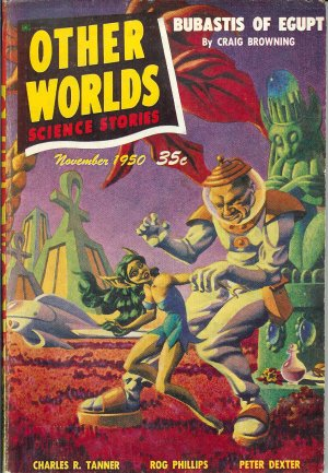 Cover of Other Worlds, November 1950